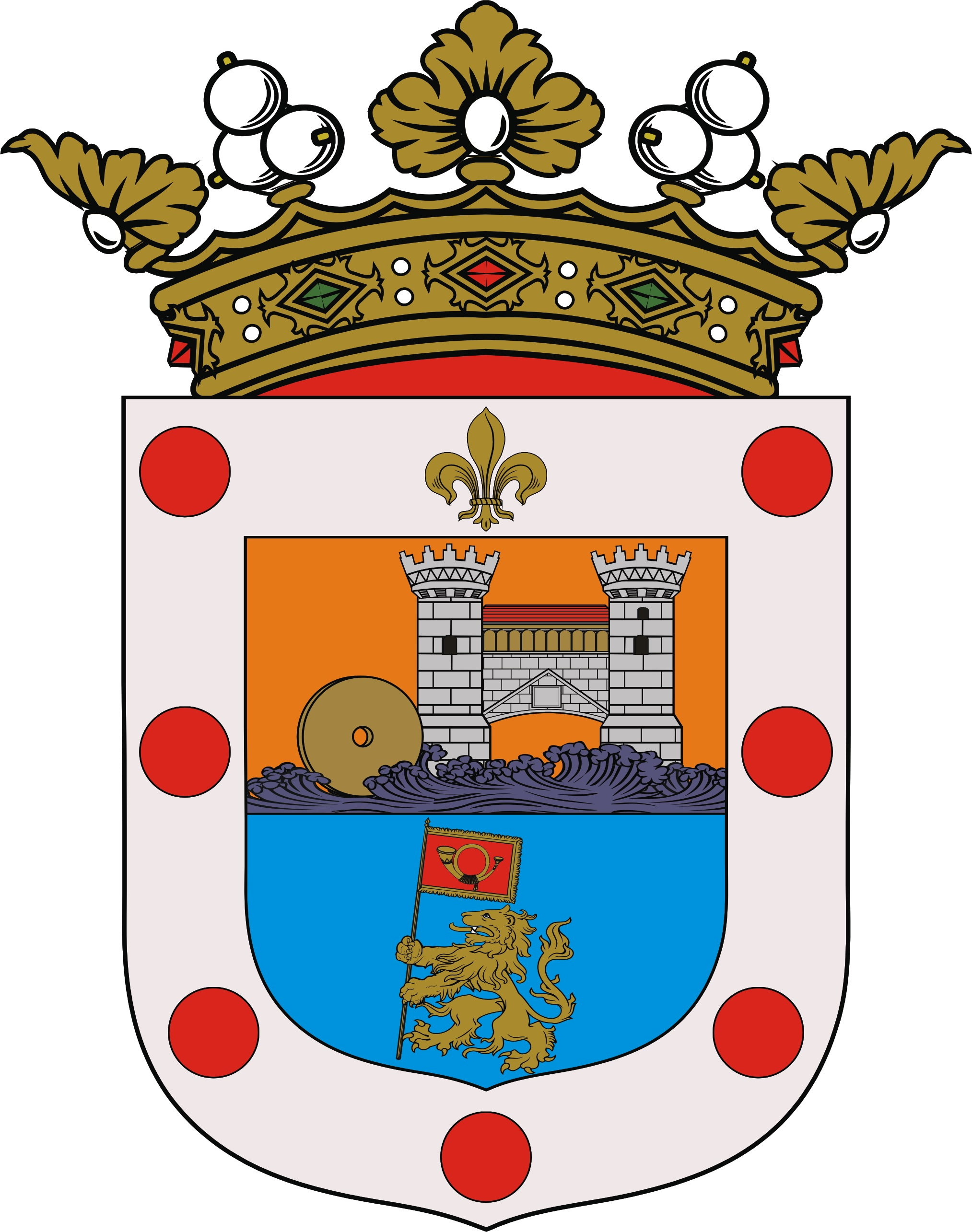 Escudo de Armas del Marqués de Daroca